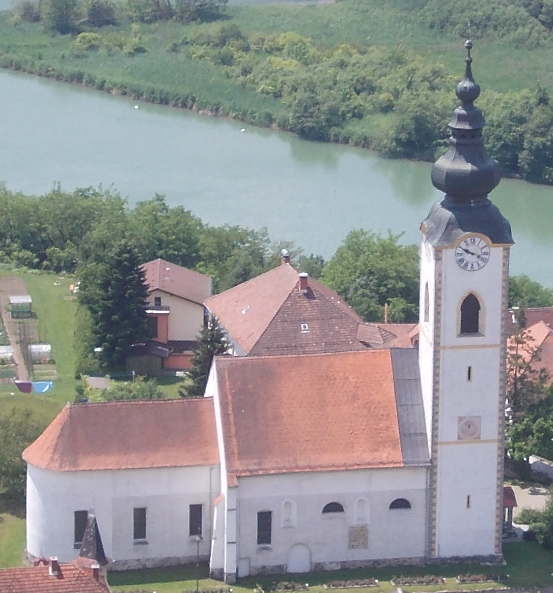 Dravograd Castle